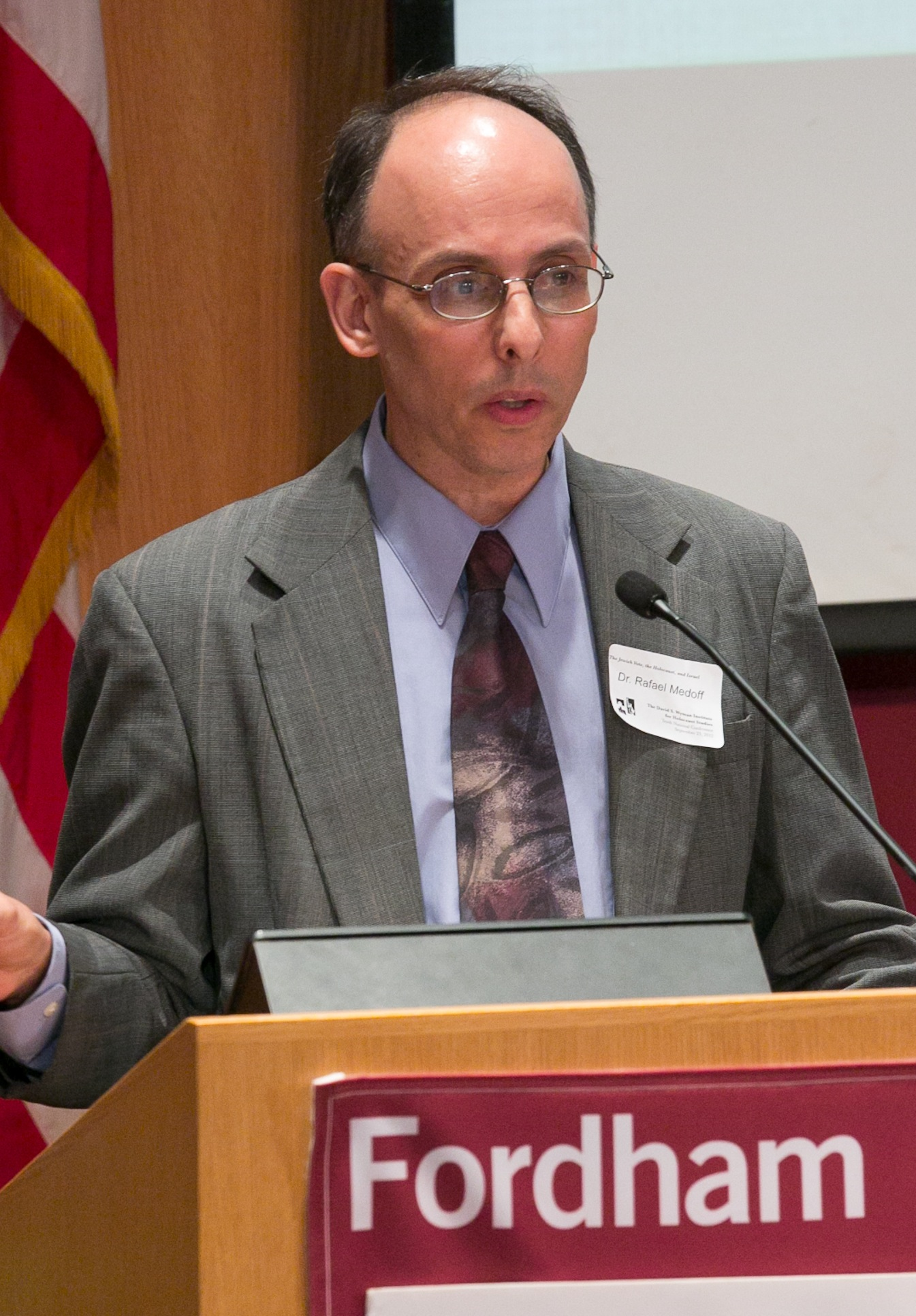 Rafael Medoff speaking at a conference at Fordham University Law School in New York City in October 2012.